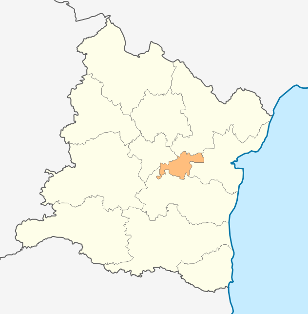 Map of Beloslav municipality, Varna Province